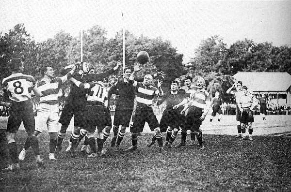 South Africa v. East Midlands, during the Springboks tour on Europe.